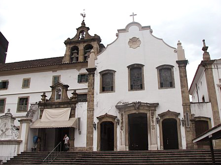 Façade of the Convent of Santo Antônio in Rio de Janeiro